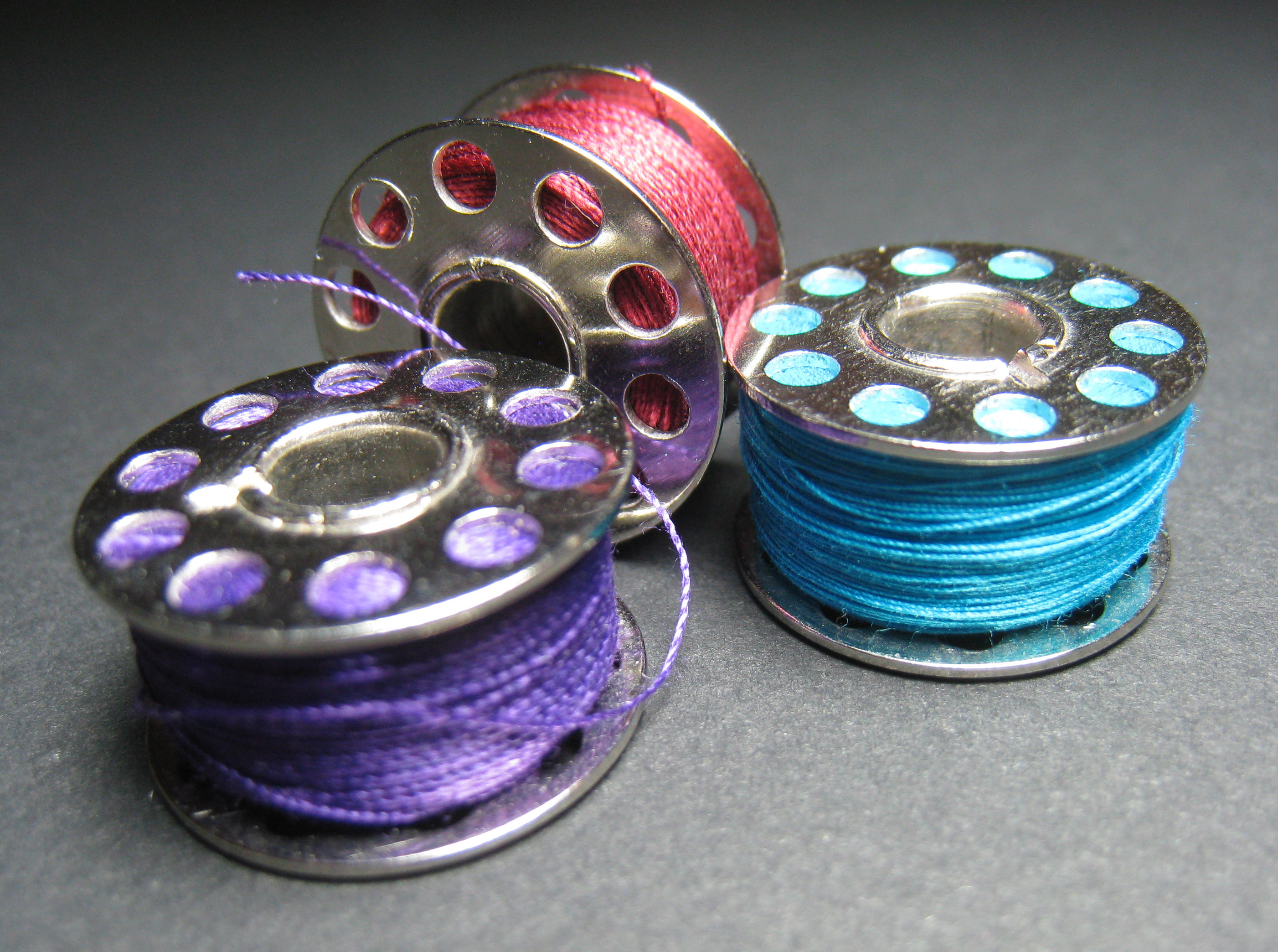 Three sewing machine bobbins with various colors of thread.